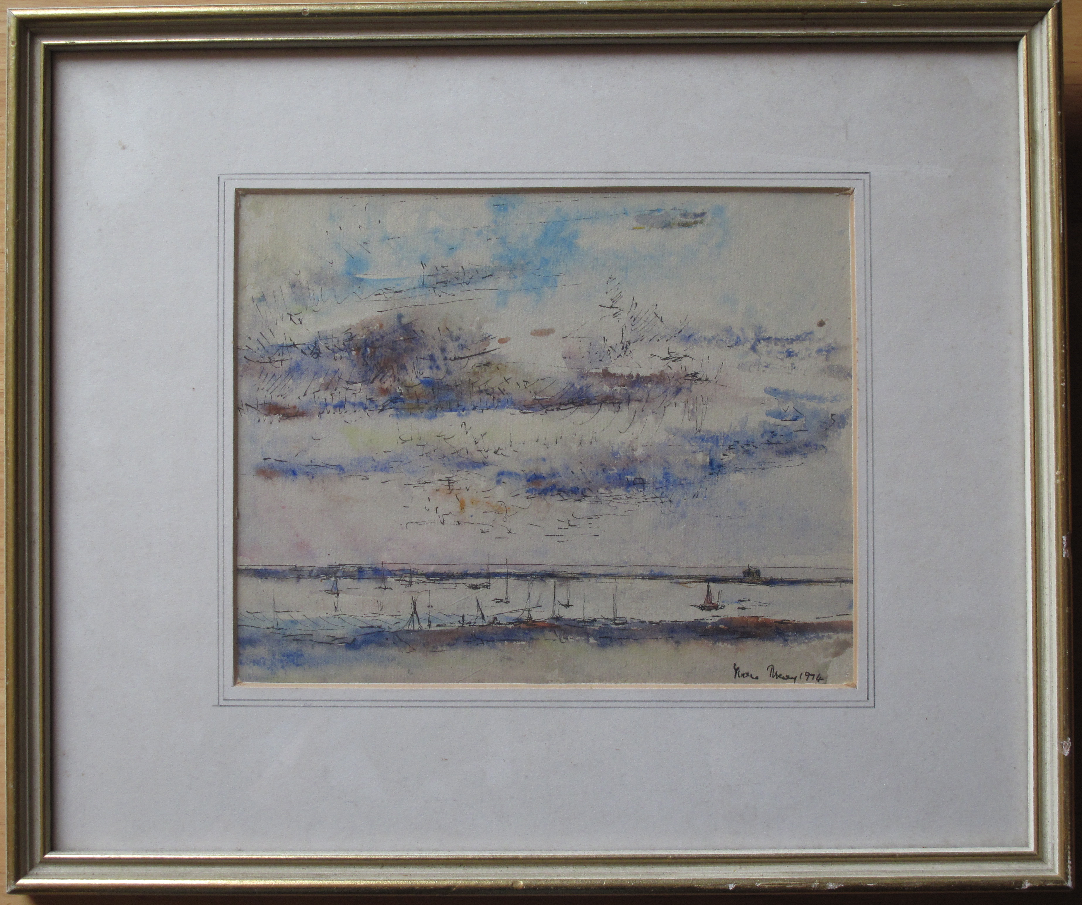 Watercolour painting of boats on river by Yvonne Drewry